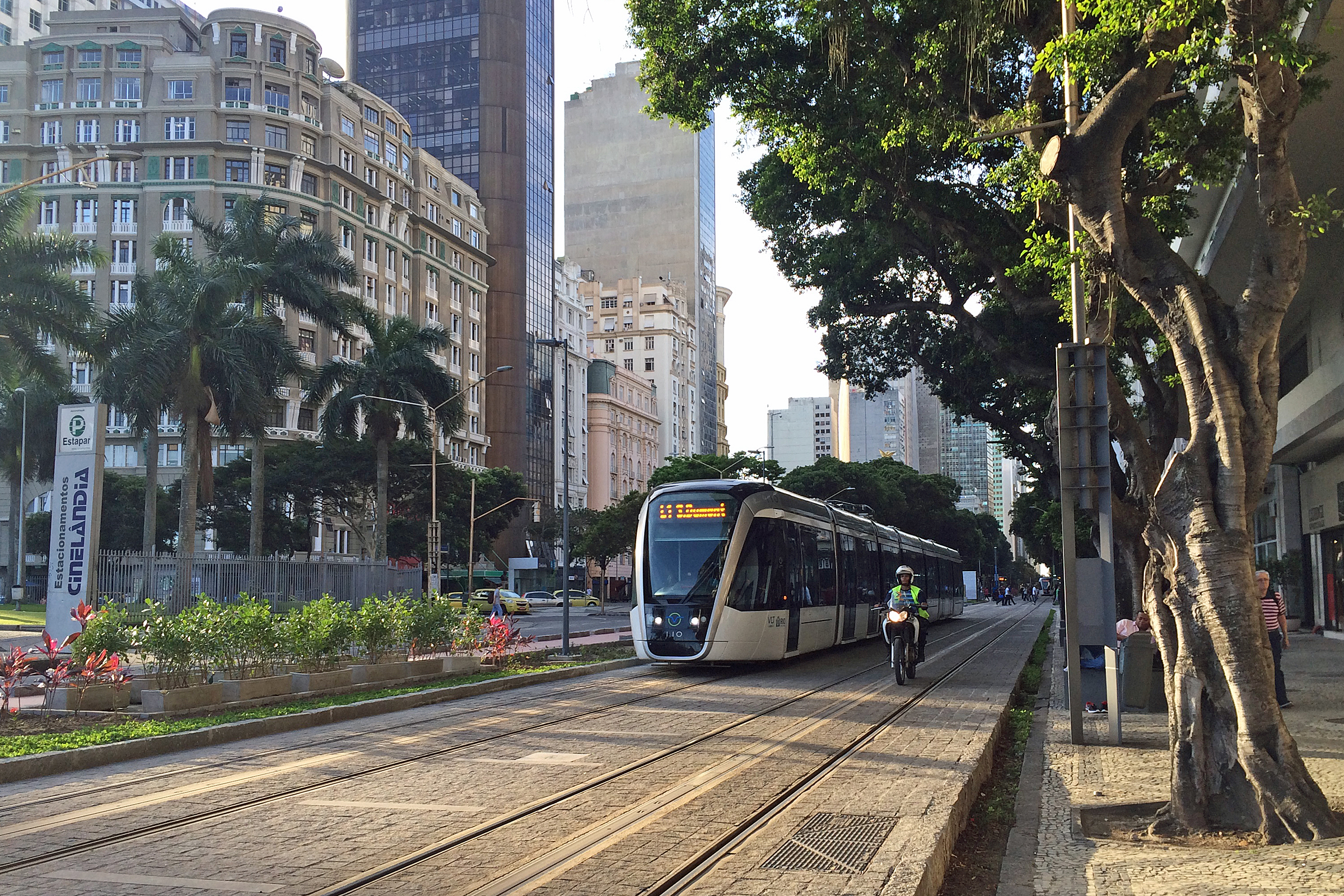 LRT Carioca, Rio de Janeiro. Tram near Cinelândia.